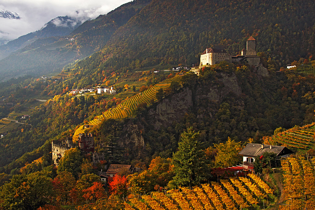 The Tyrol castle, seen in autumn from the Tirol village.